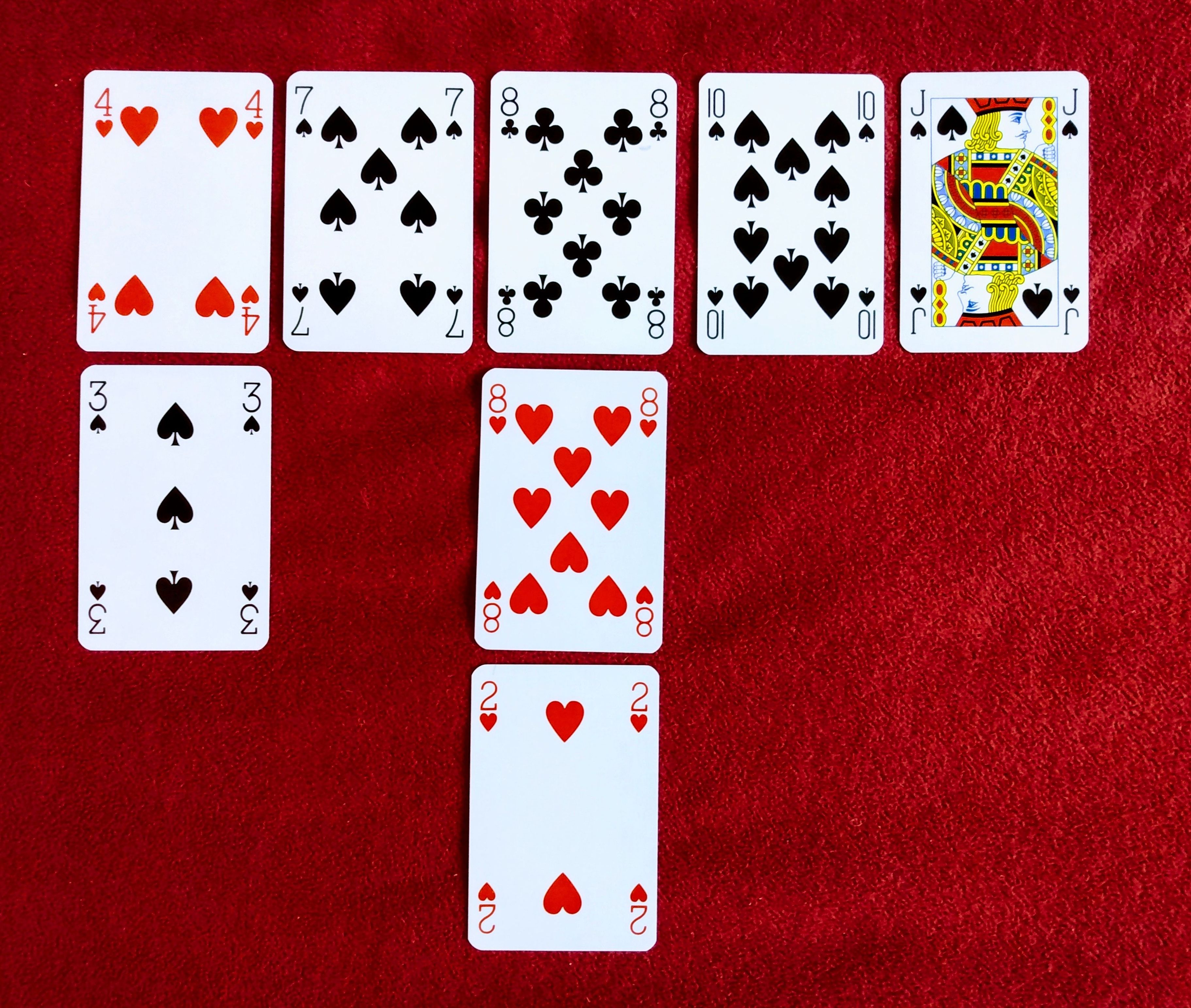 Example gameplay of the card game "Eleusis".